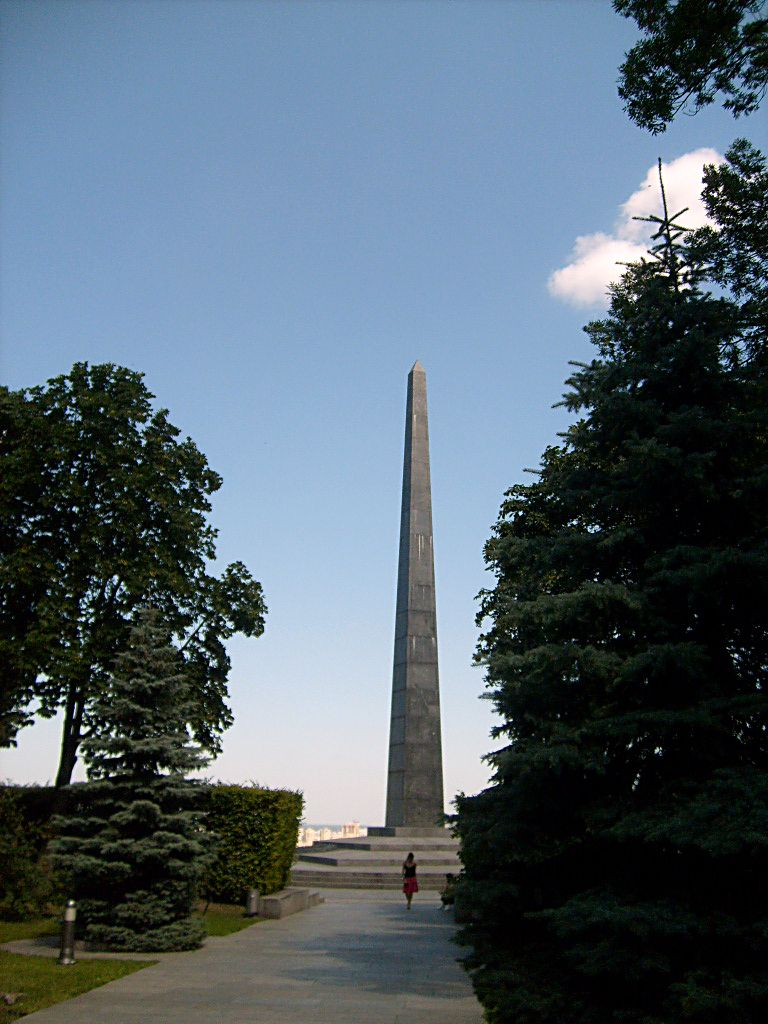 Eternal Glory Obelisk in Kiev